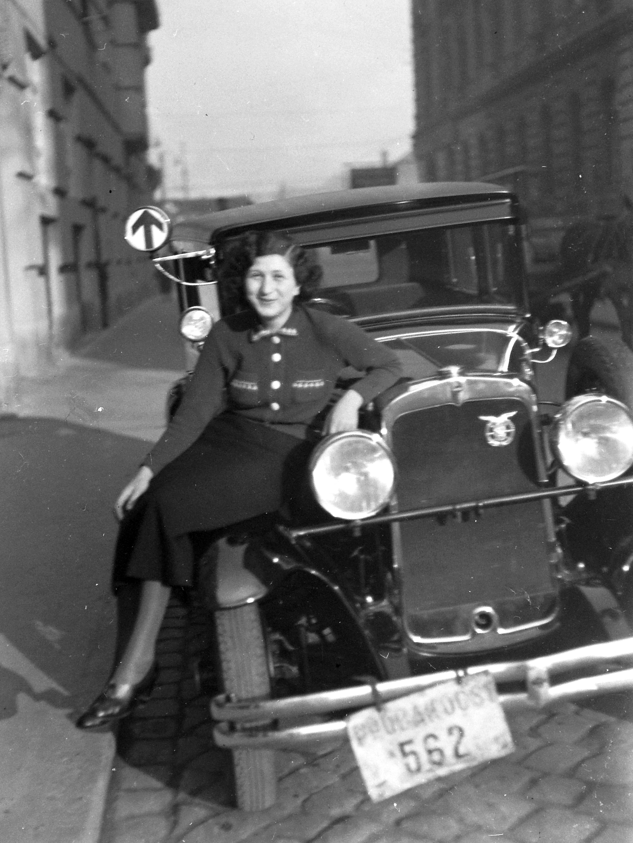 Location: Hungary Tags: american brand, automobile, portrait, woman, street view, taxicab